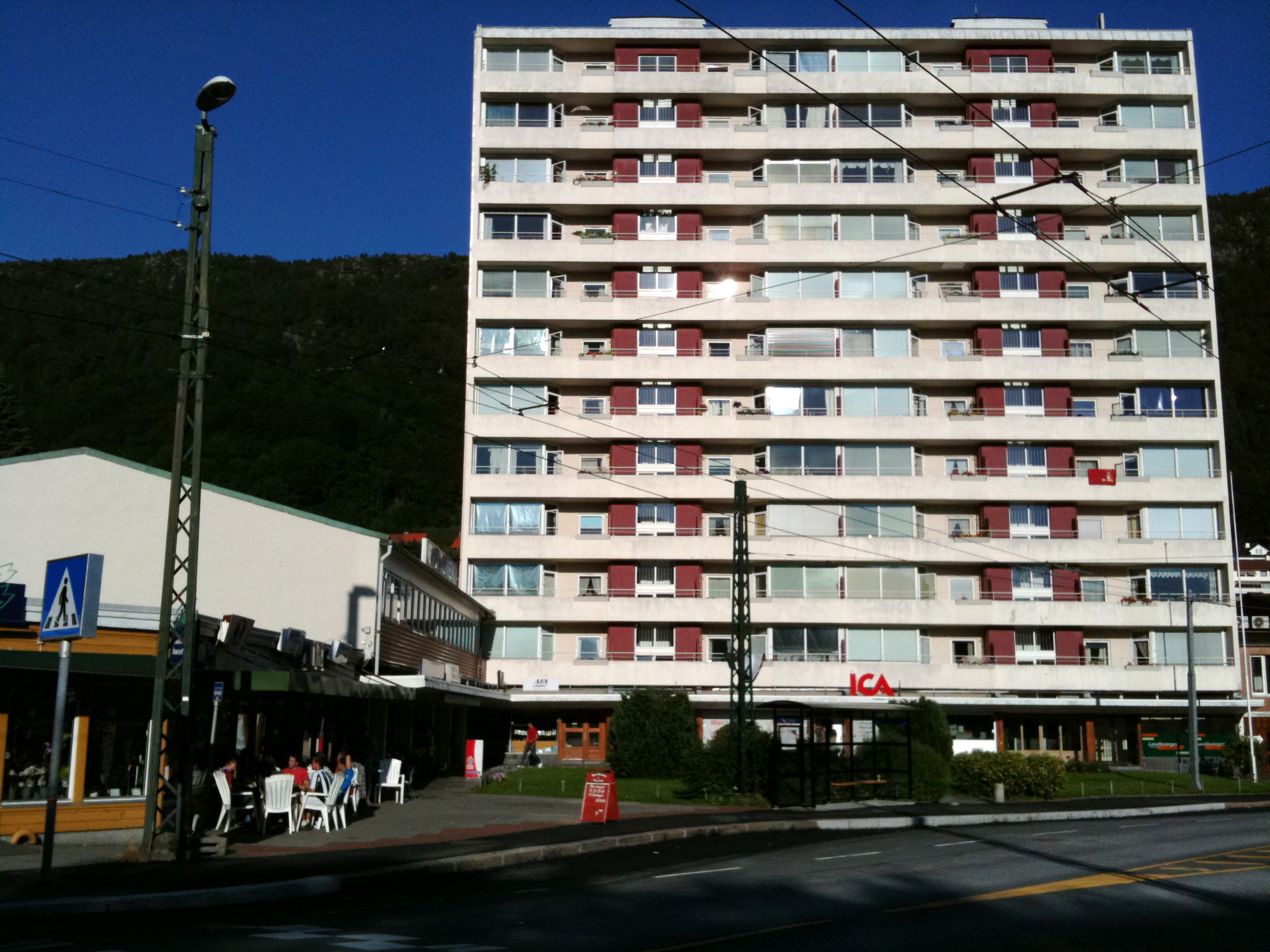 Landåstorget in Bergen, Norway